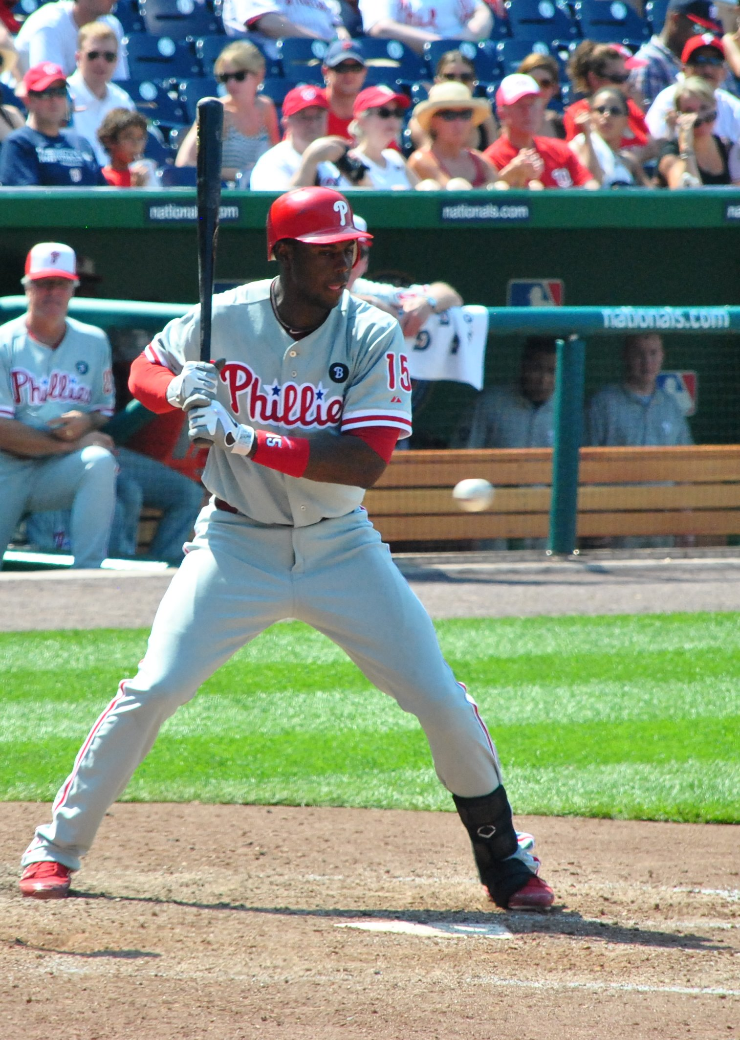 John Mayberry, Jr. of the Philadelphia Phillies batting in 2011.